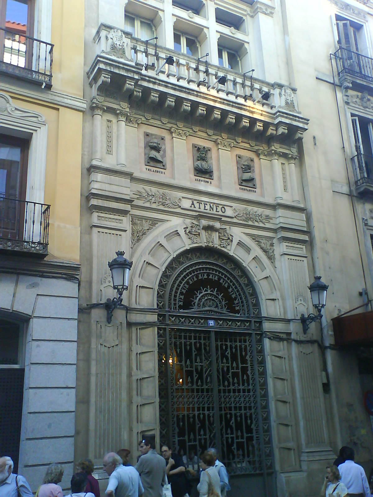 Façade of the Athenæum of Madrid (Spain), at 21st Calle del Prado (street) in Centro district. Building was projected in 1882 by Enrique Fort Guyenet, Luis de Landecho and Jordán de Urríes, and built from 1882 to 1884.